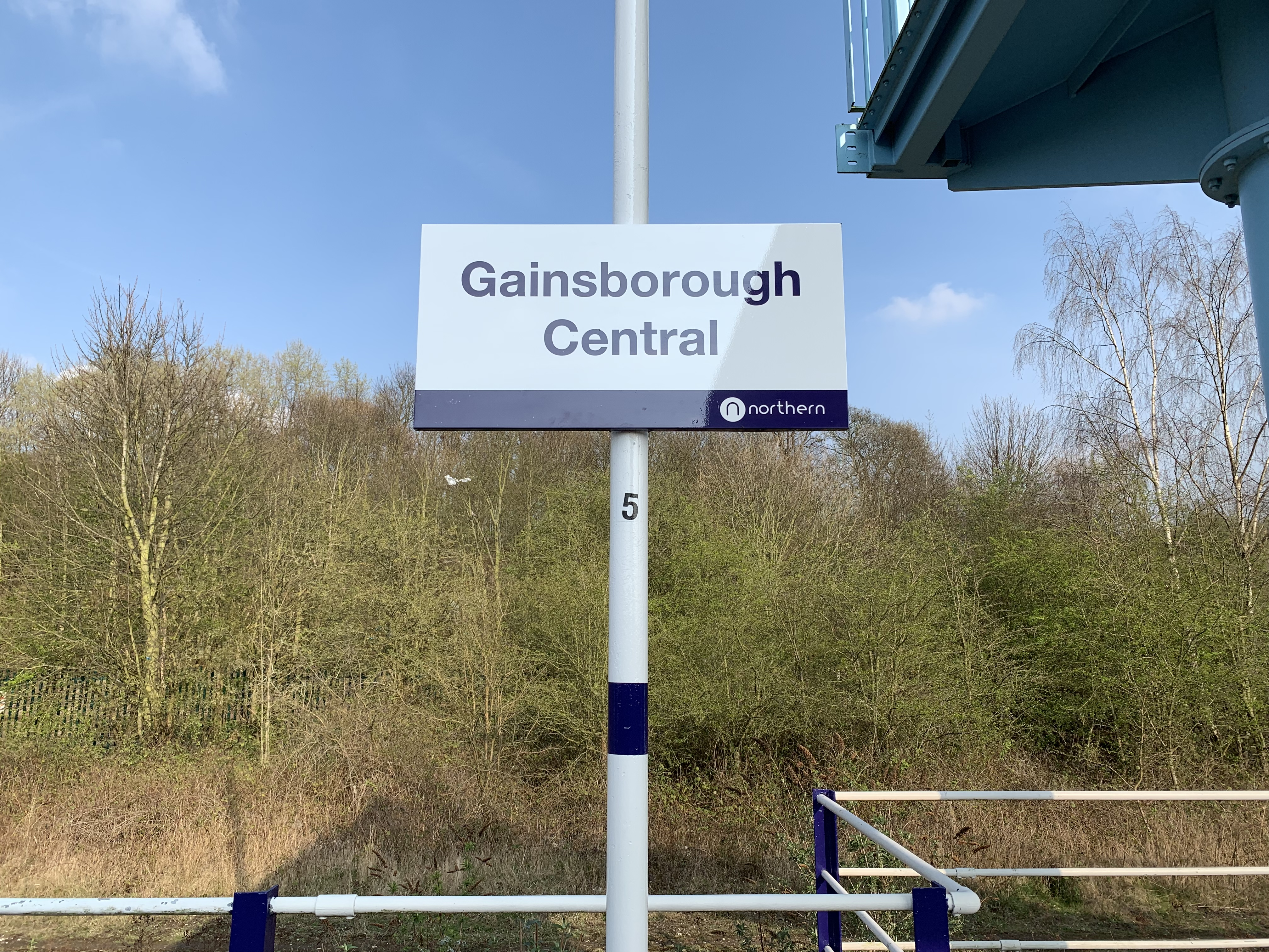 The recently renewed name sign at Gainsborough Central